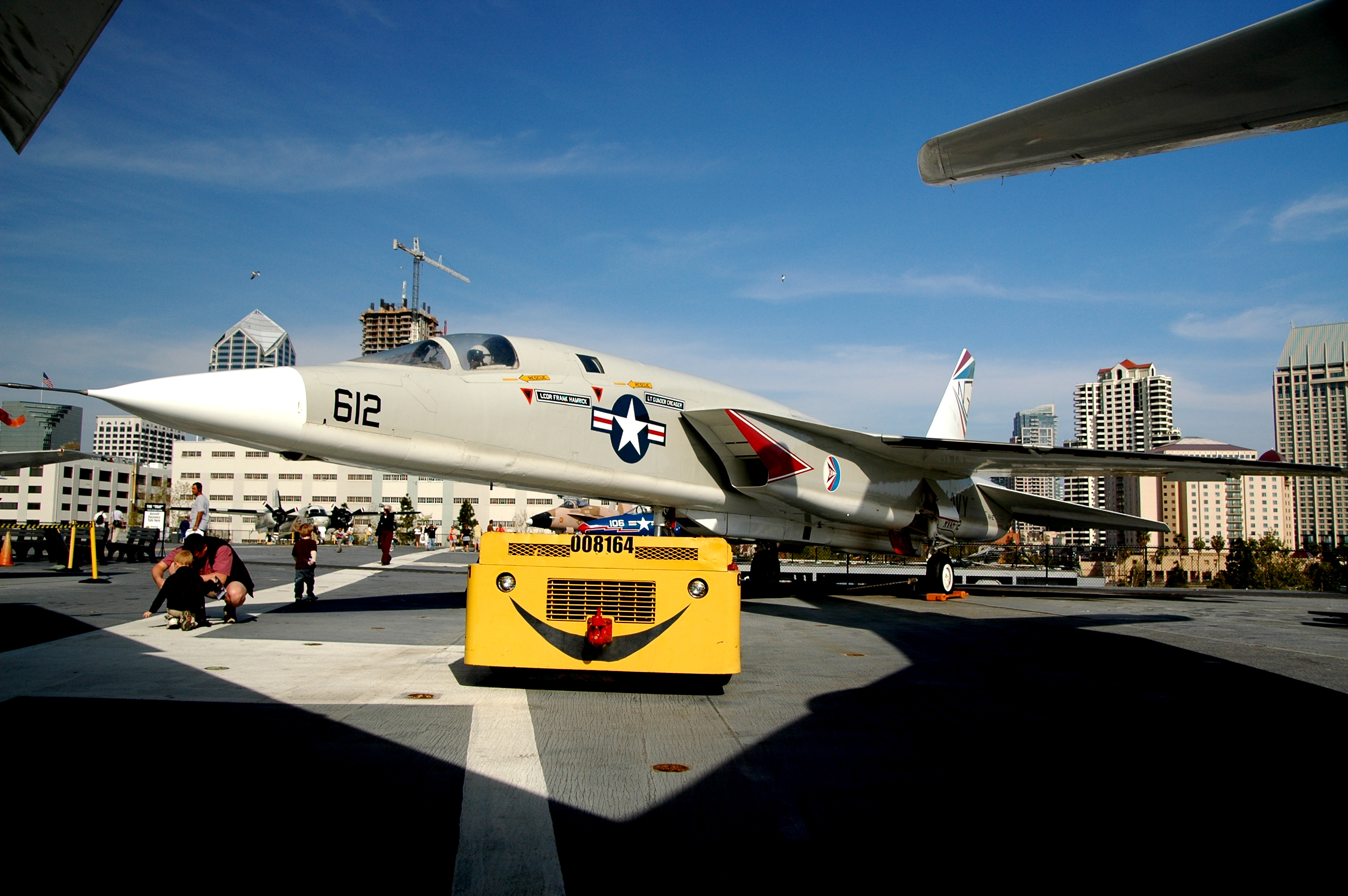 North American RA-5C Vigilante displayed aboard the USS Midway Museum in San Diego (California, USA). The left shows BuNo 156641 with markings of heavy reconnaissance squadron RVAH-12 Speartips, part of Carrier Air Wing Nine (CVW-9) (tail code "NG") aboard the aircraft carrier USS America (CVA-66) in 1970. The right side of the aircraft also shows BuNo 156641, but with markings of RVAH-7 Peacemakers, part of CVW-2 ("NE") aboard USS Ranger (CV-61) in 1979.